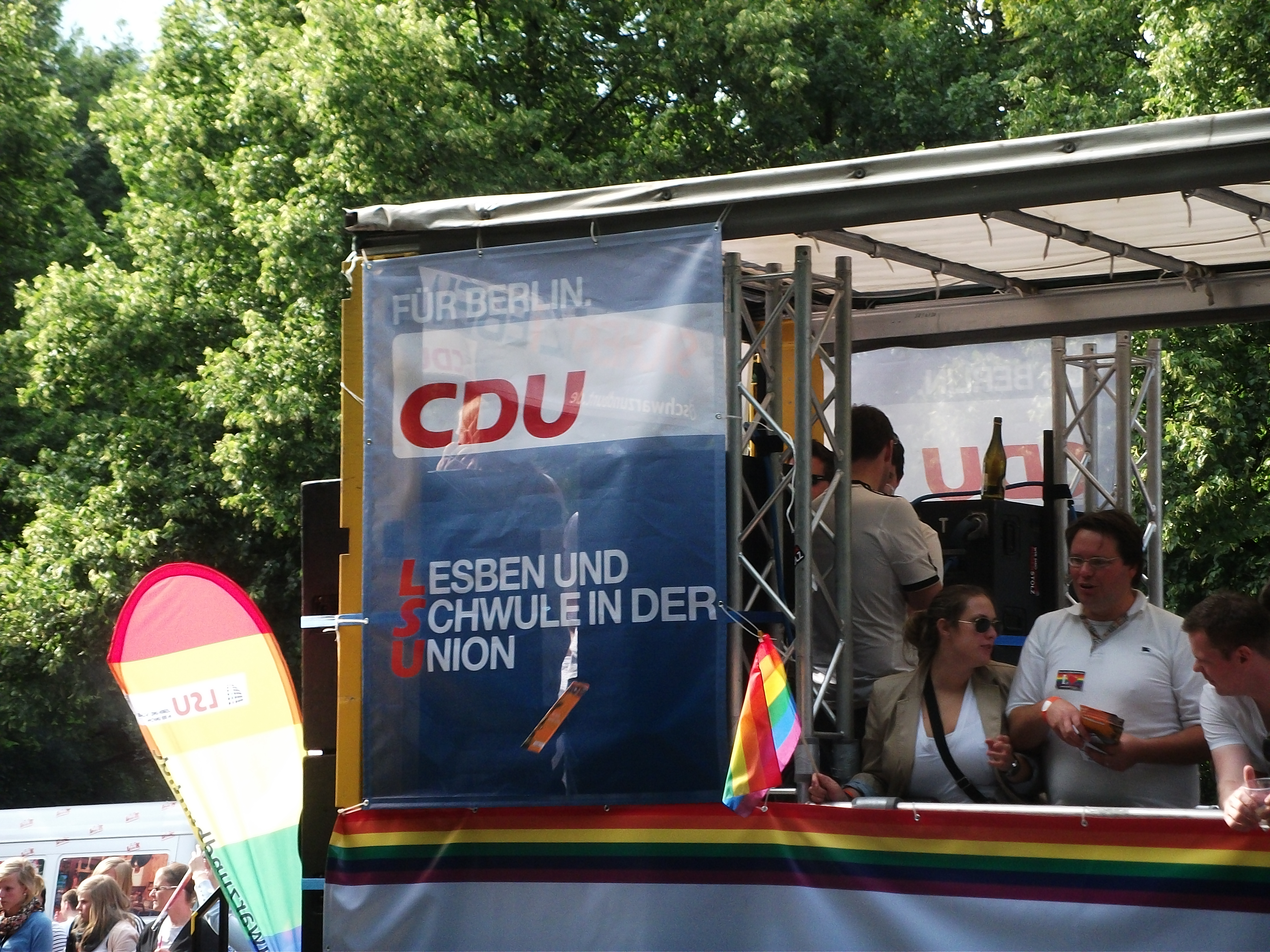 CSD 2011 in Berlin